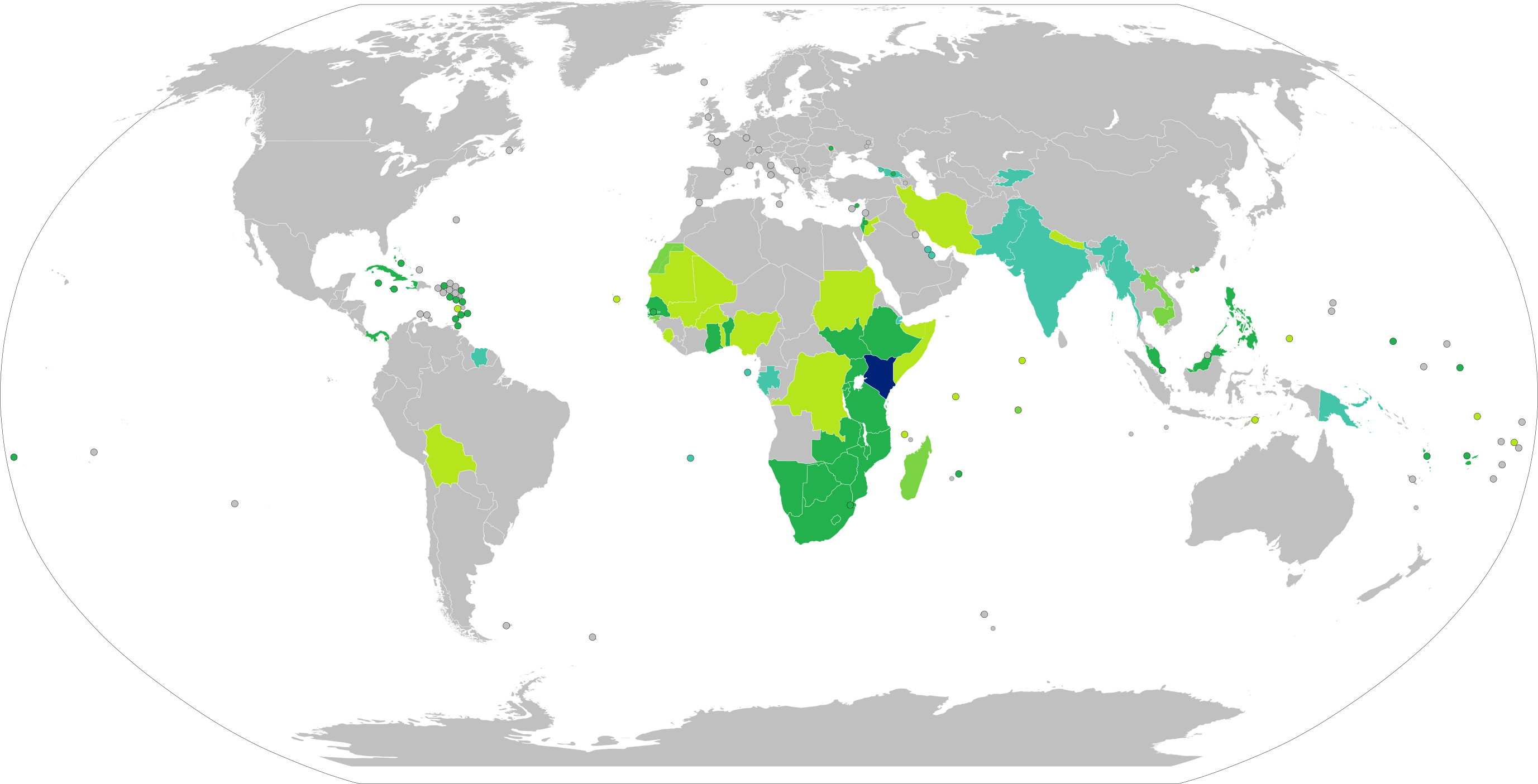 Visa requirements for Kenyan citizens Kenya Visa free access Visa on arrival Electronic visa Visa available both on arrival or online Visa required